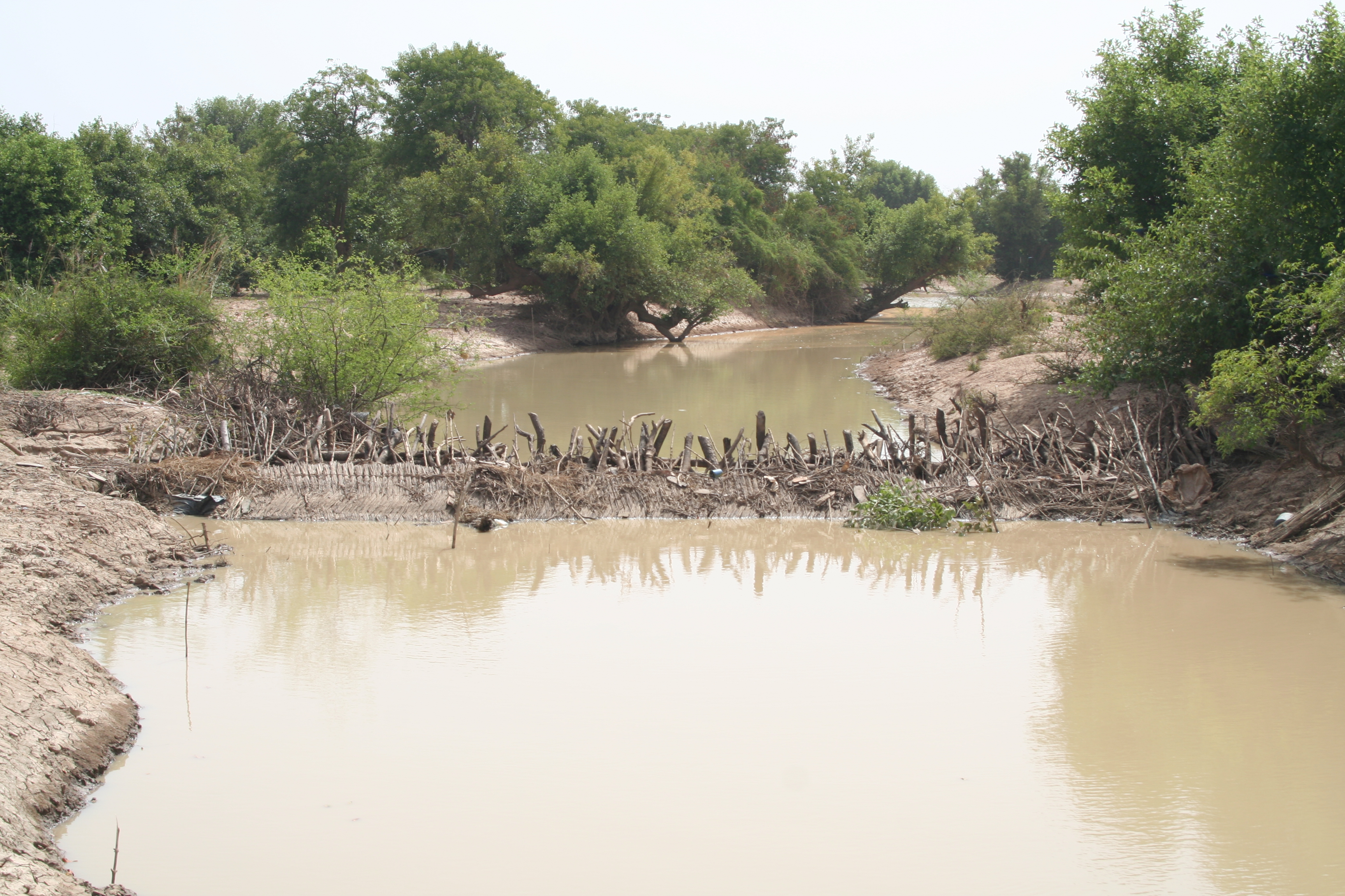 Massili river at the border of the classified forest of Gonsé, Burkina Faso